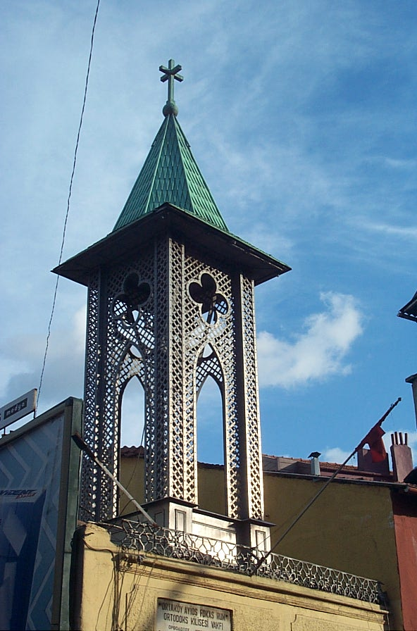 Ortakoy church